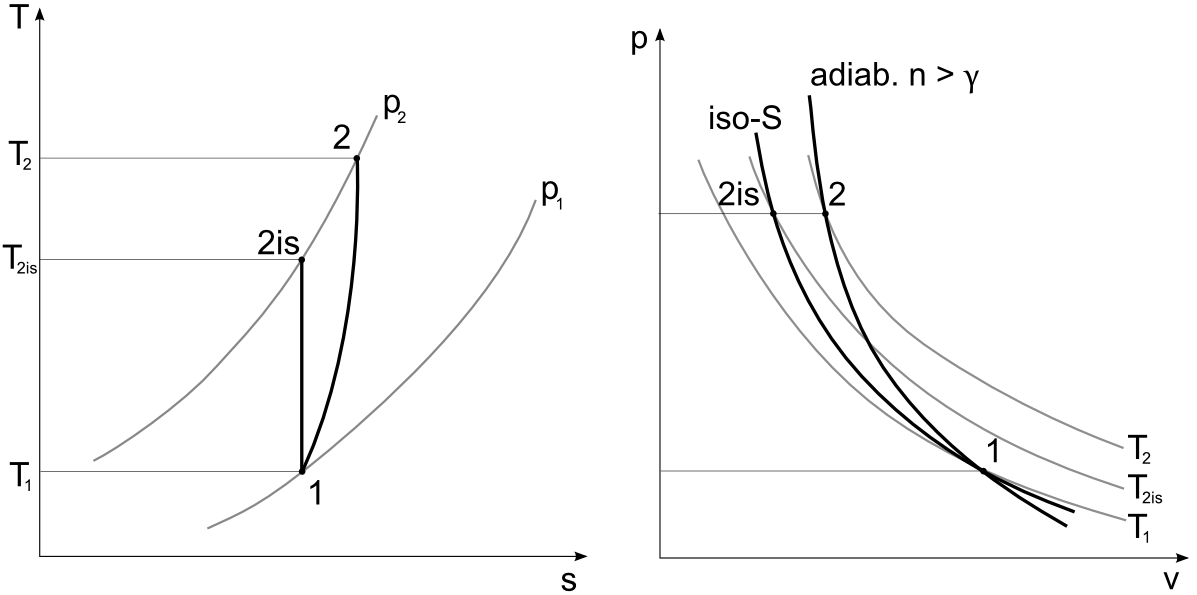 Comparison of an isoentropic (1 to 2is) and a real (1 to 2) perfect gas compression on T-s diagram (temperature T and entropy s) on the left, and on the p-v diagram (pression p and volume v).